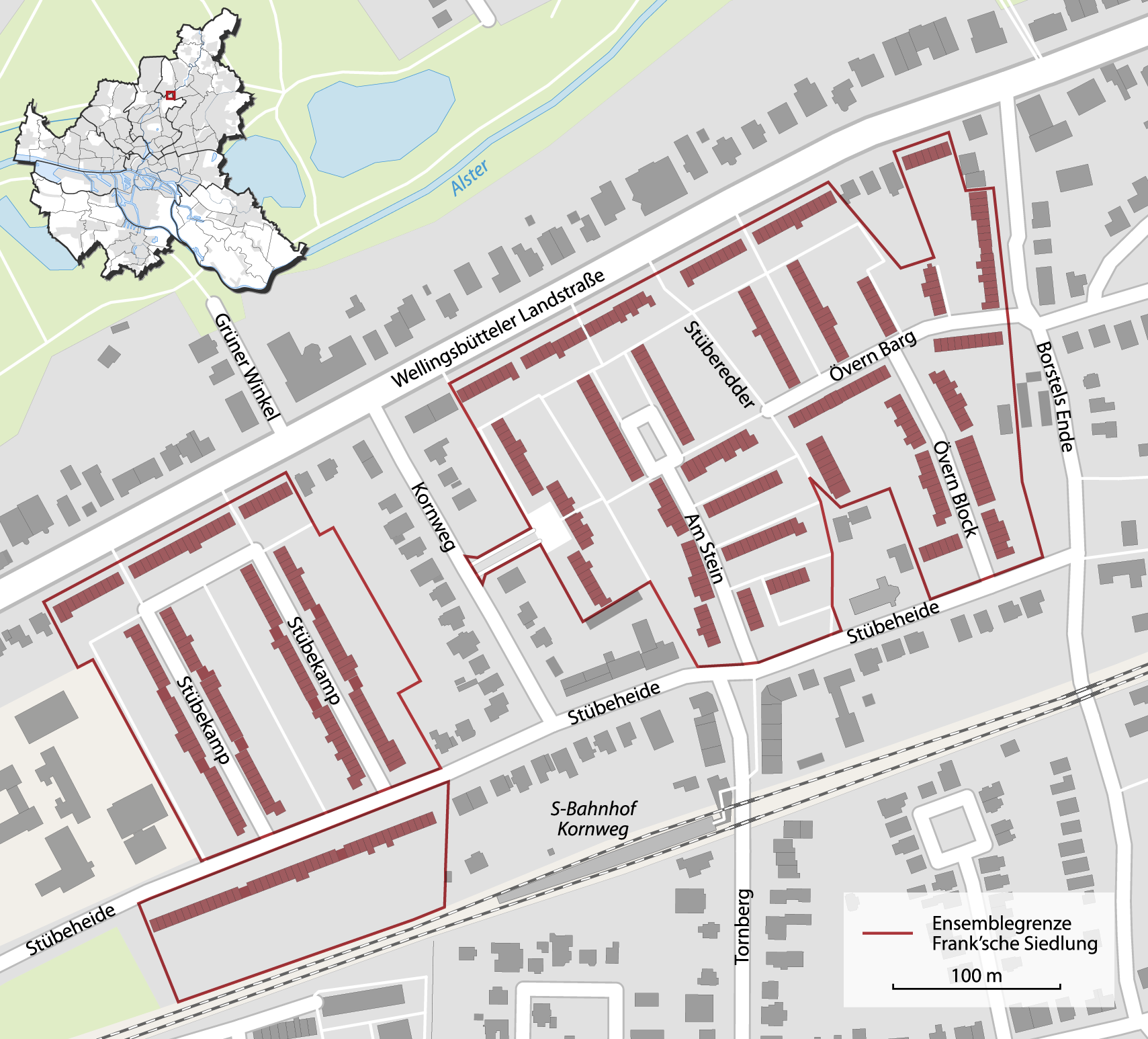 Map of Frank’sche Siedlung in Hamburg-Ohlsdorf